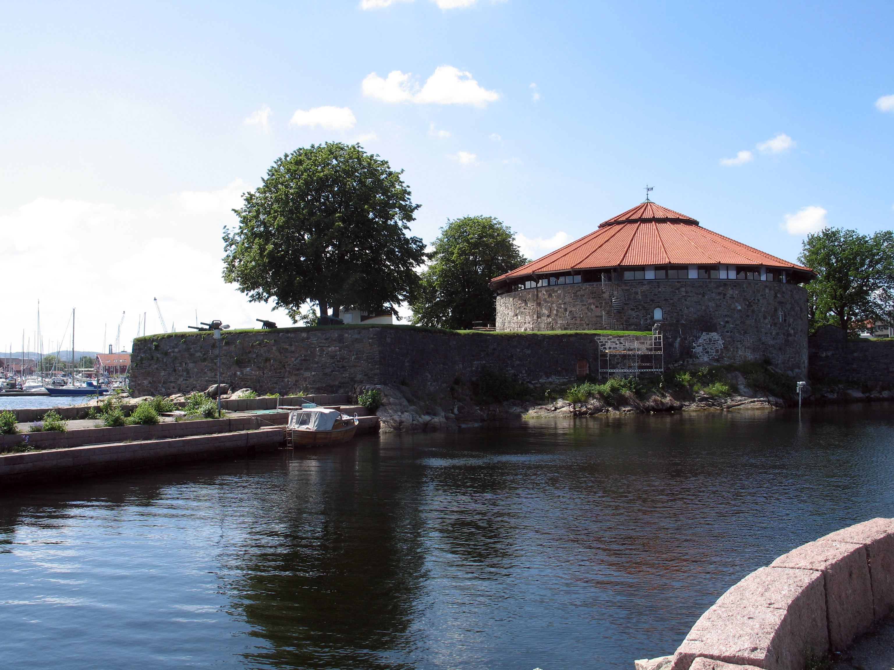 Christiansholm Fortress, a Norwegian fortress built to defend the city of Kristiansand